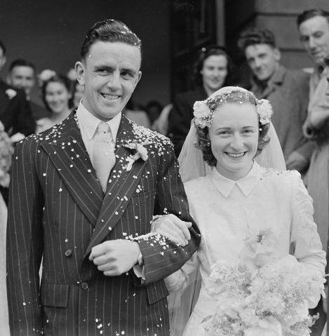 Newly-wed hurdler June Schoch with her husband Ronald Clere and some of the wedding party and guests, photographed in 1950 by an Evening Post staff photographer